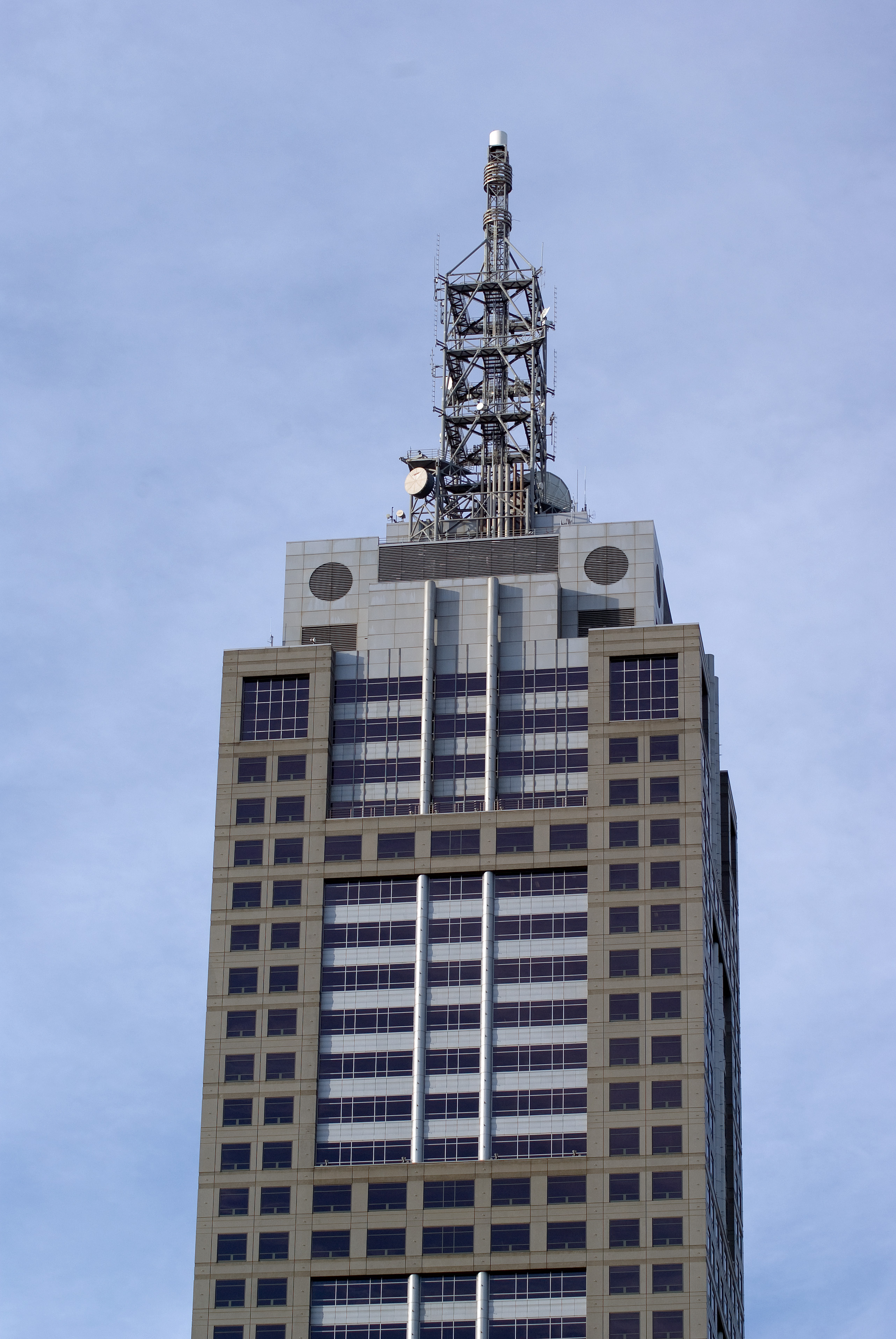 Detail of the upper portion of the western facade of 120 Collins Street, Melbourne, including the telecommunications mast. Pictured from the roof of the Manchester Unity Building.